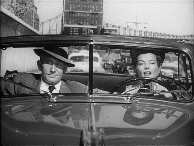 Screenshot from the original trailer for the film Adam's Rib (1949), featuring Spencer Tracy and Katharine Hepburn. Public domain explanation The Copyright Act of 1909, which was law until 1978, determined that a work was copyrighted for 28 years. In the 28th year, the owner of the copyright had to renew the copyright. If he did not, his work went into the public domain (see here). The copyright for this trailer would therefore have to be renewed in 1977. A search with US copyright records from January-June 1977 and July-December 1977 find no trace that this occurred. It is therefore in the public domain.